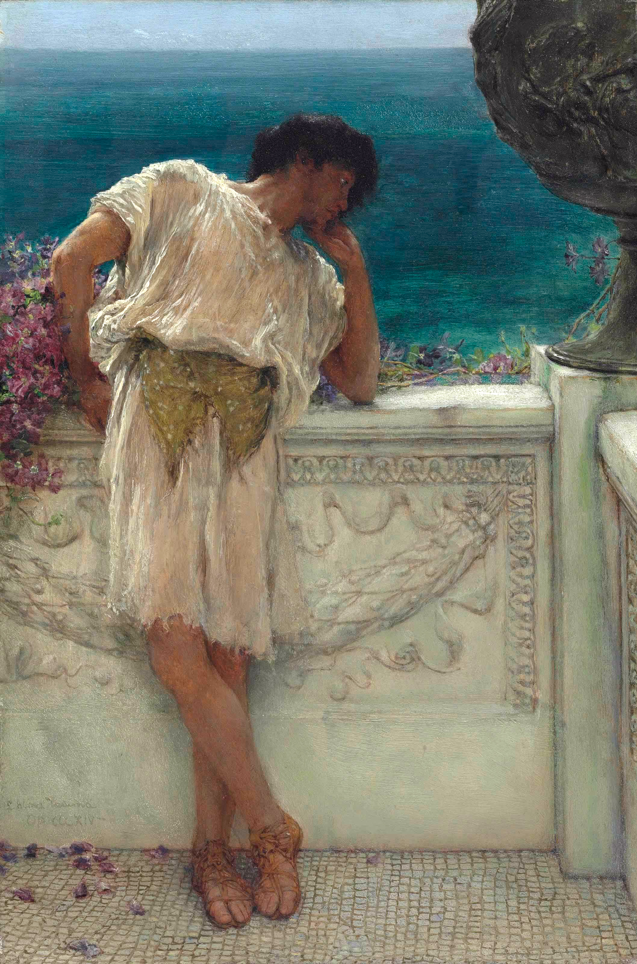 The poet Gallus dreaming oil on panel 24.2 x 16.5 cm signed b.l.: L.Alma Tadema/OP.CCCXIV - 1892